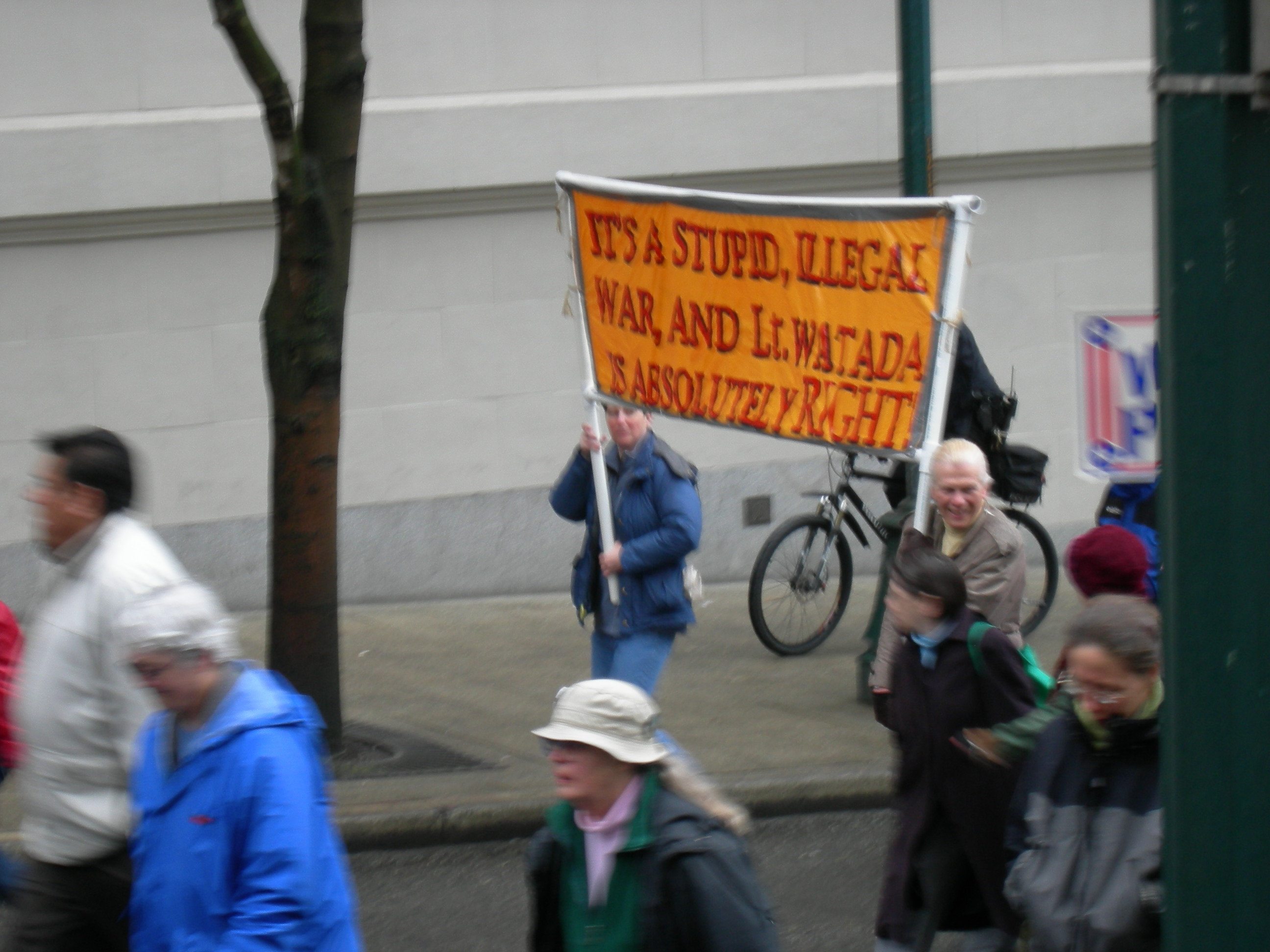 Anti-war demonstration, Seattle, Washington, 19 March 2007. Marchers head south on Fifth Avenue. Sign: "It's a stupid, illegal war and Lt. Watada is absolutely right" refers to Ehren Watada, who refused service in Iraq. Local connection, because Watada was stationed at nearby Ft. Lewis.